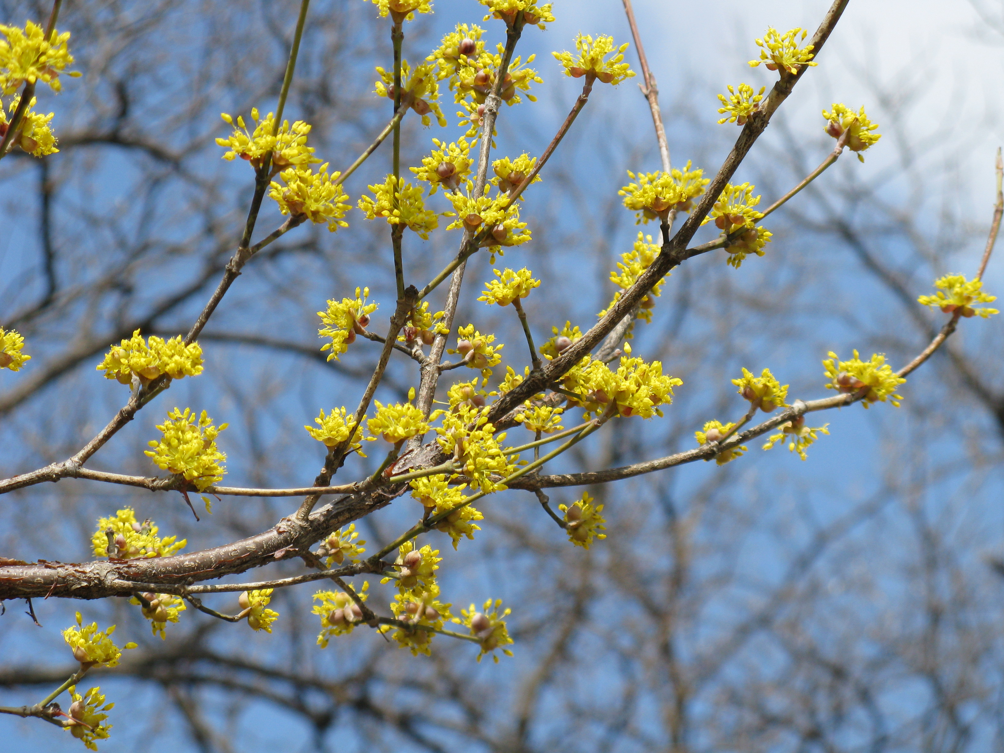 Cornus officinalis